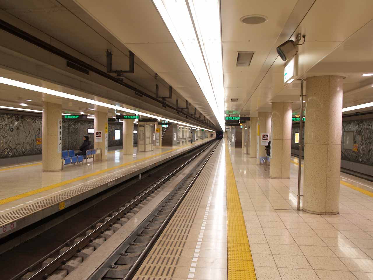 TMG Oedo Line Kiyosumi-Shirakawa station (Platform from Truck 2&3)